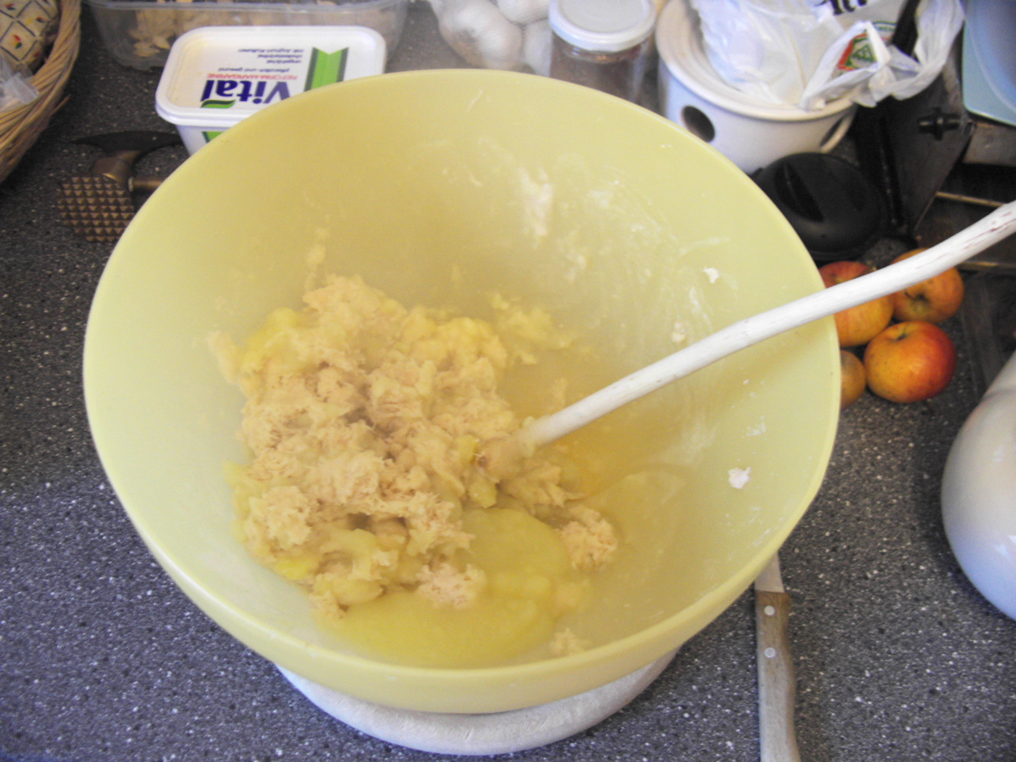 Preparing potato dumplings